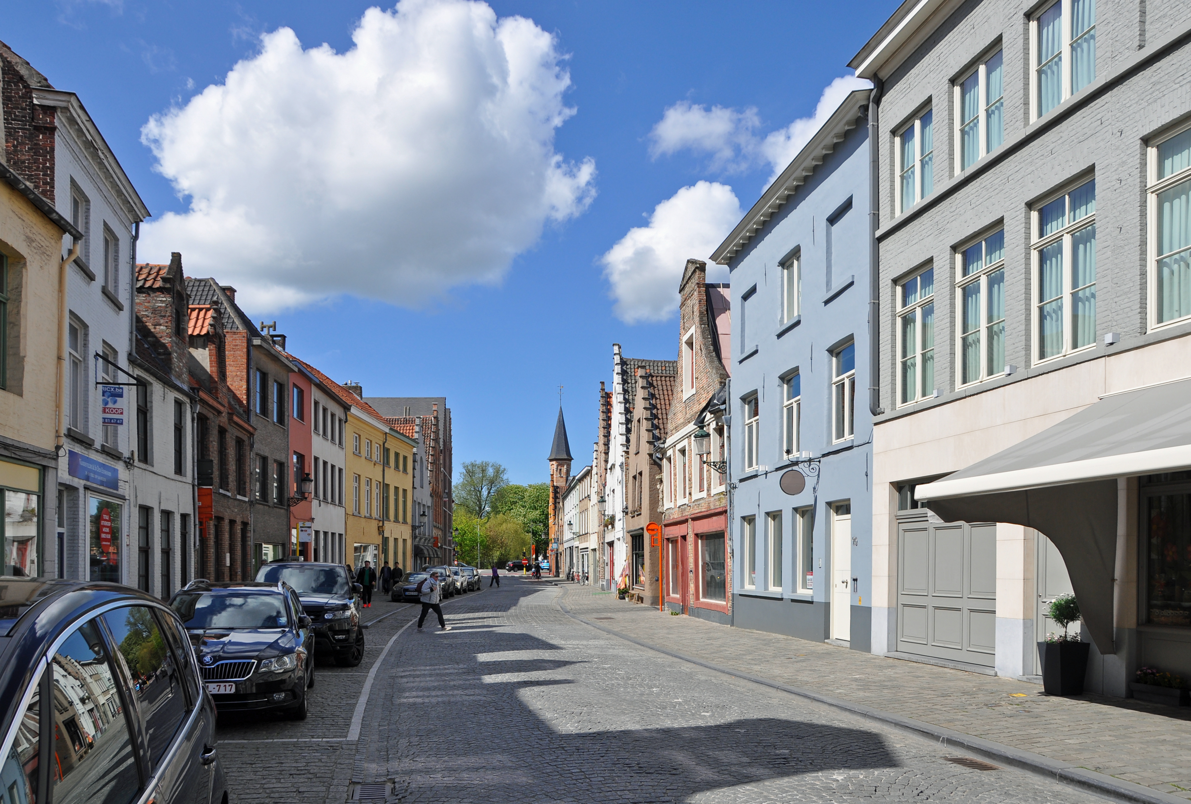 Bruges (Belgium): Ezelstraat